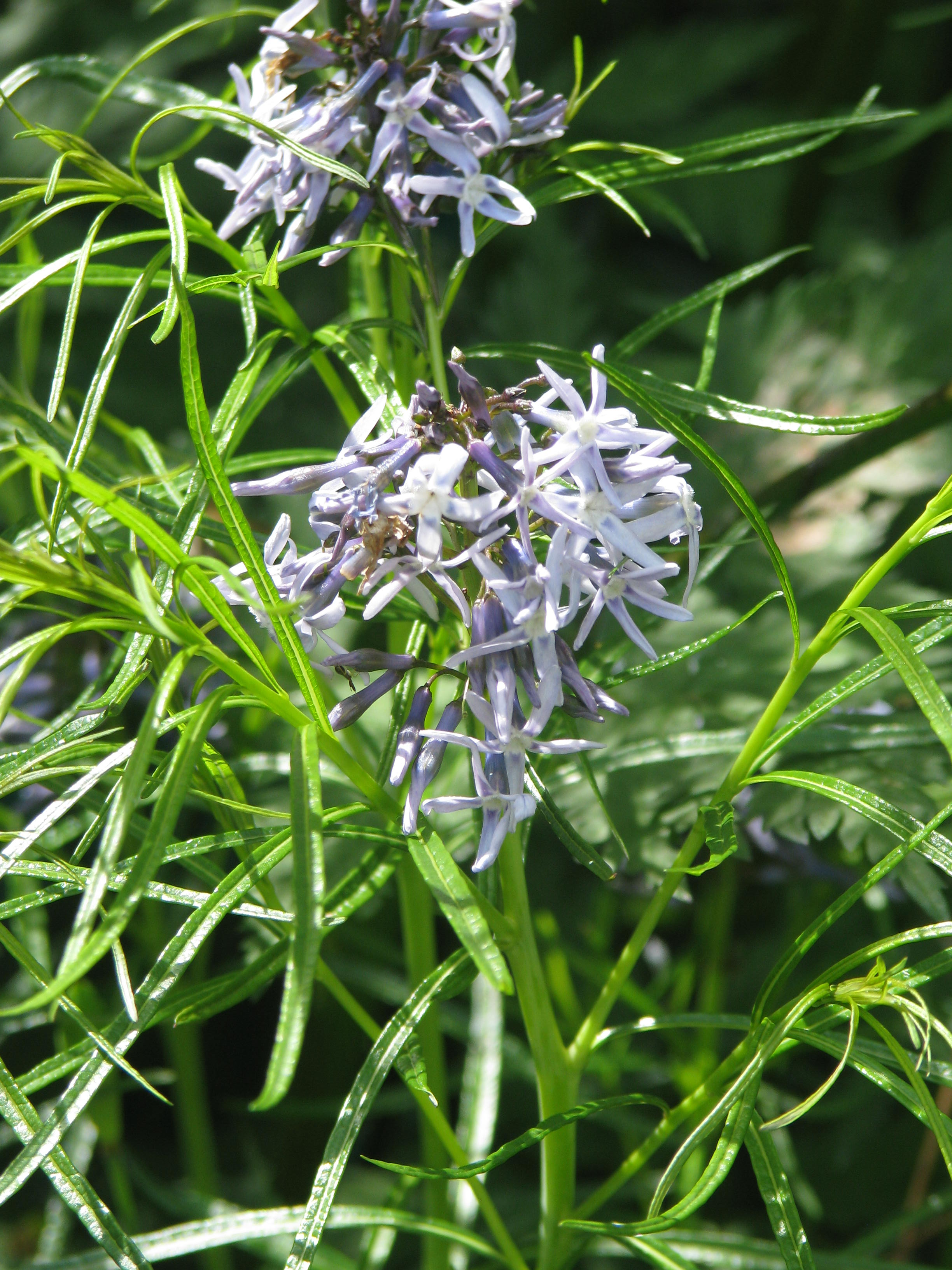 Amsonia hubrichtii